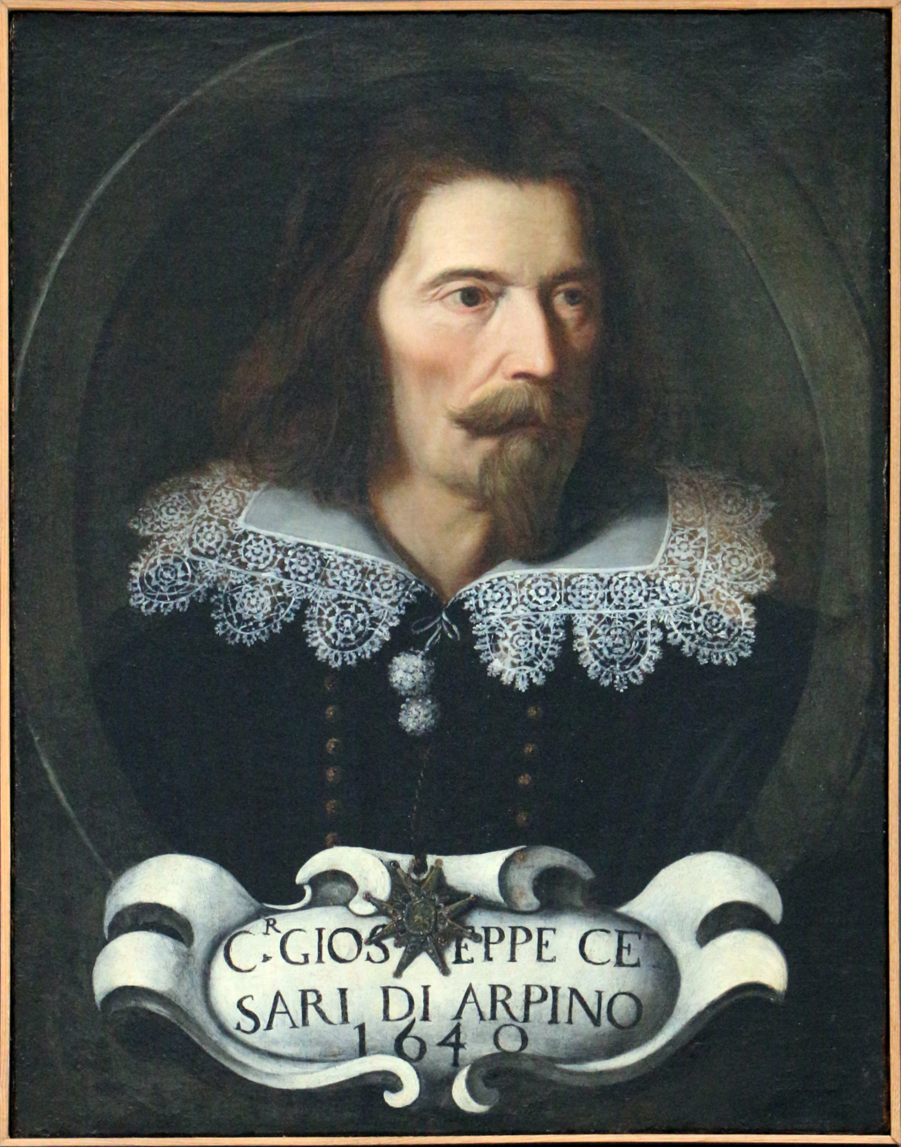 Accademia di San Luca - Gallery